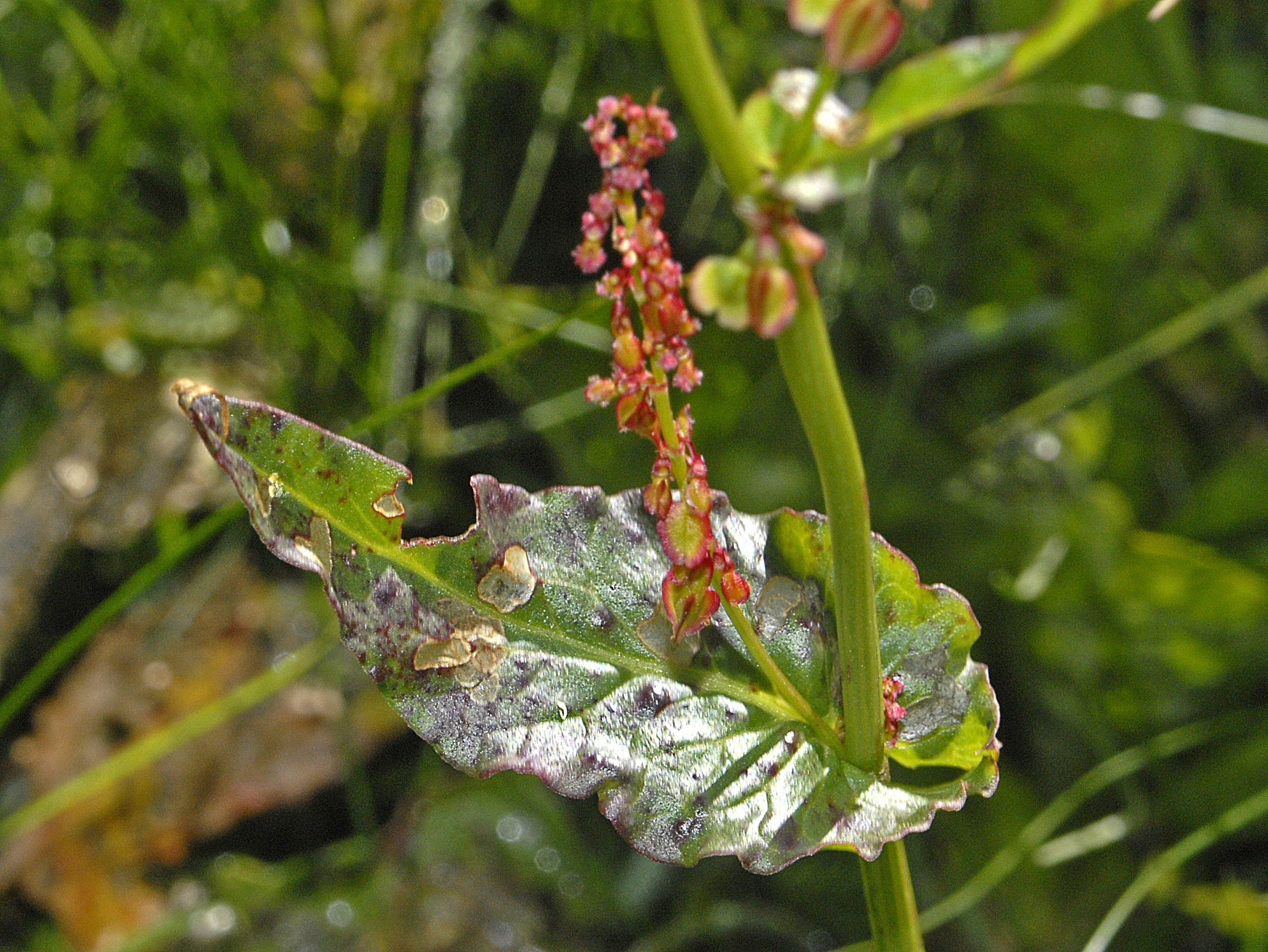 Leaf of Rumex arifolius at the Giardino Botanico Alpino Chanousia